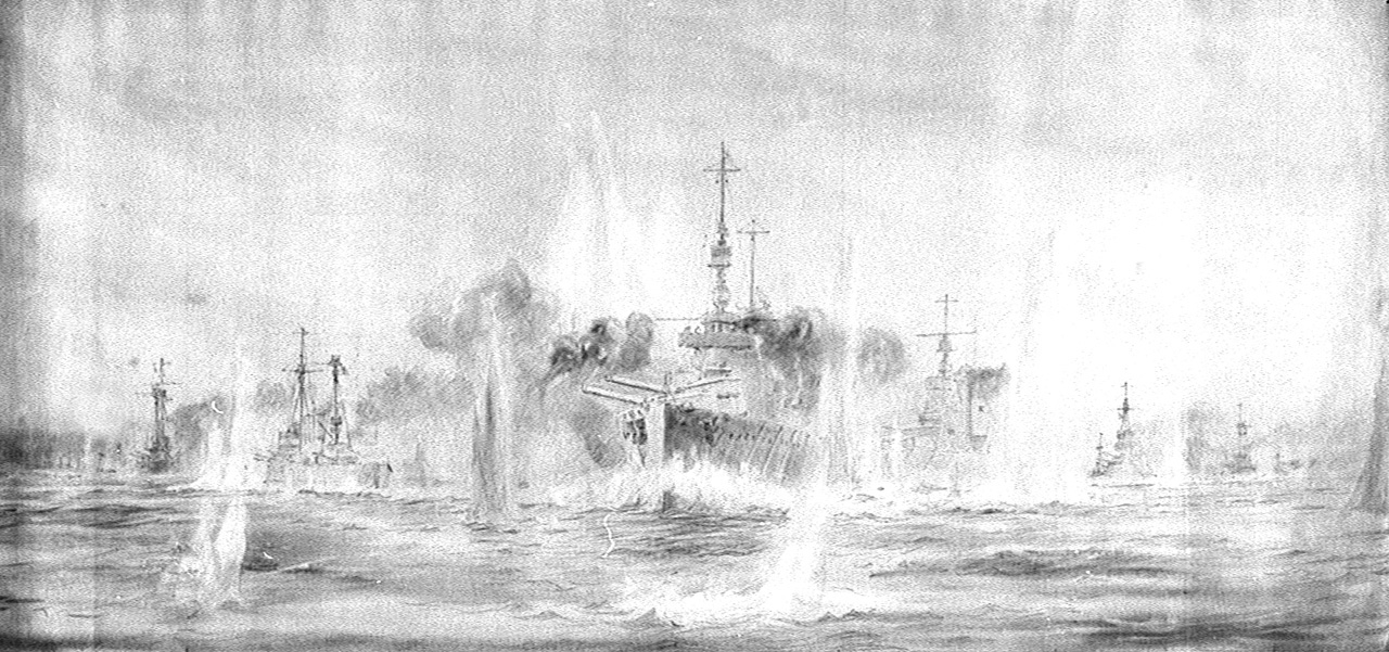 HMS 'Lion' leading the British Battlecruiser Force in action at the Battle of Jutland, 31 May 1916, about 19.20 An unusually worked-up pencil drawing by Wyllie of the British Battlecruiser Force led by David Beatty's flagship 'Lion' and followed by the 'Princess Roya'l, 'Tiger' and 'New Zealand', steaming approximately north-north-east towards the Grand Fleet at about 19.20 on 31 May 1916 while engaging the German High Seas Fleet. On the left is the armoured cruiser 'Defence' heading south-south-west to engage the German light cruiser 'Wiesbaden'. Her consort, the armoured cruiser 'Warrior', is following and in the background on the left is possibly the armoured cruiser 'Black Prince' whose movements at this time cannot be ascertained with any certainty.Items PAF0915, PAF0916, PAF0917 and PAF2246 are alternative versions of the same event.